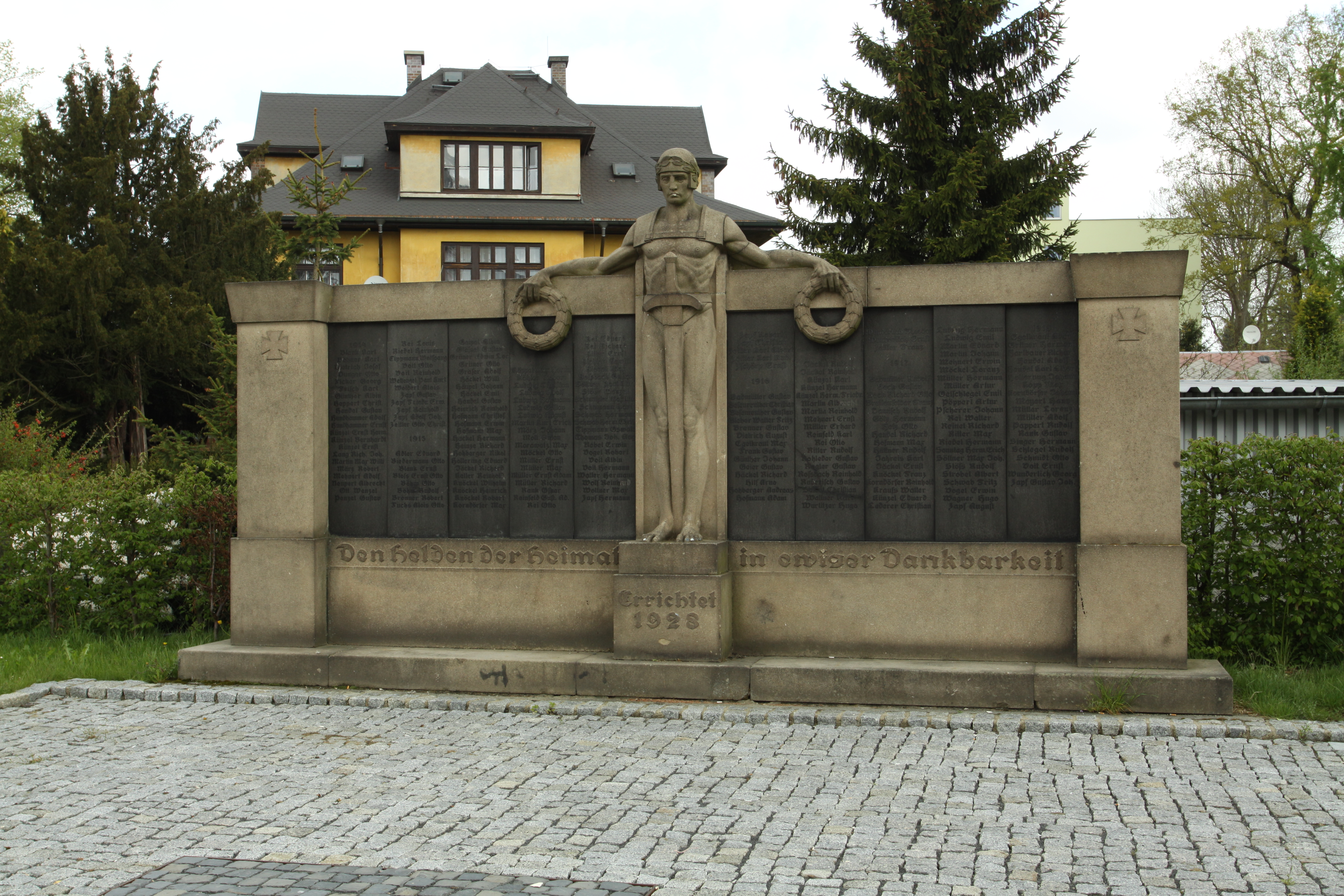 Town Hranice in Cheb district, Czech Republic